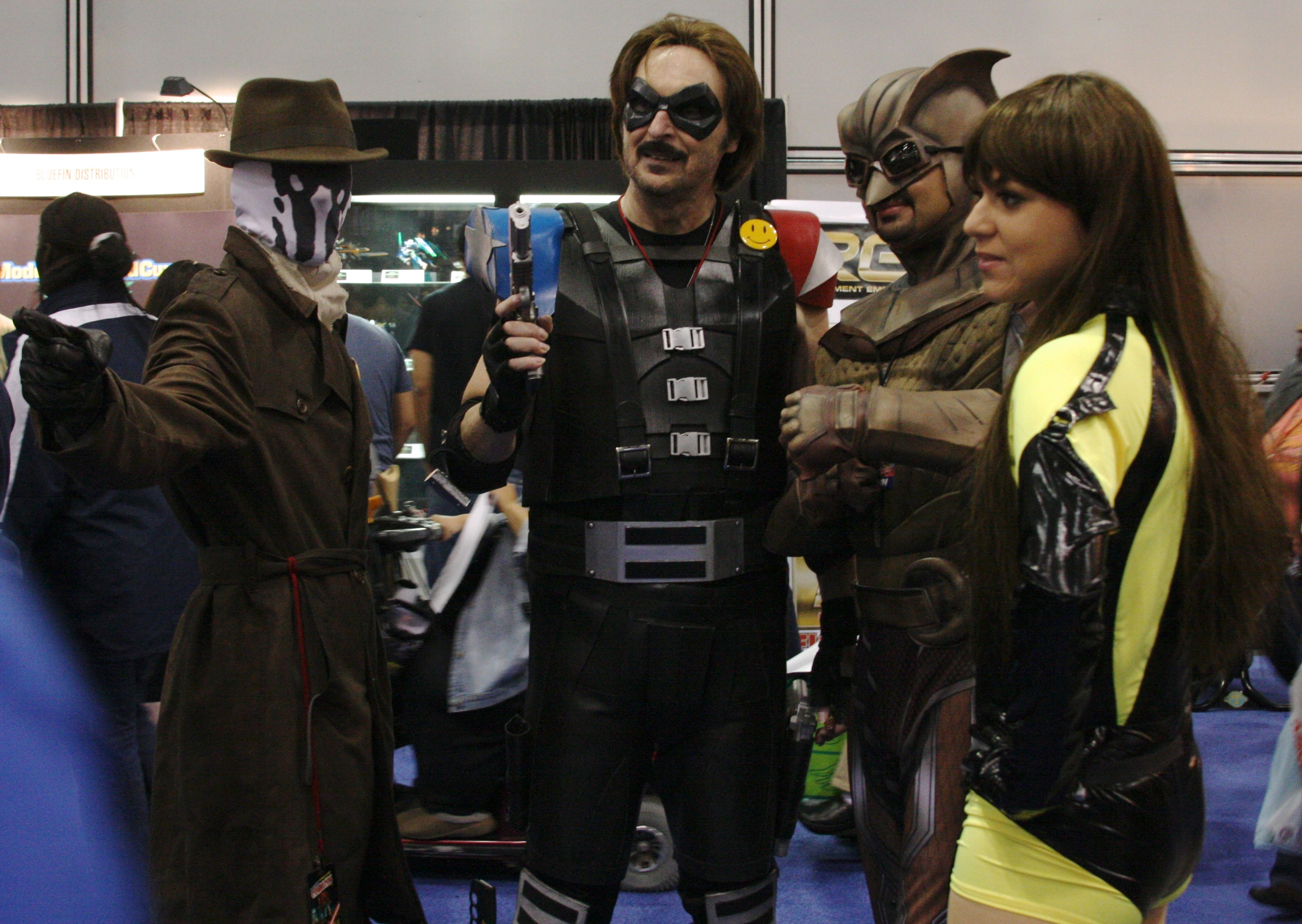 Watchmen cosplay at Comic Con 2010 (Rorschach, The Comedian, Nite Owl and Silk Spectre).